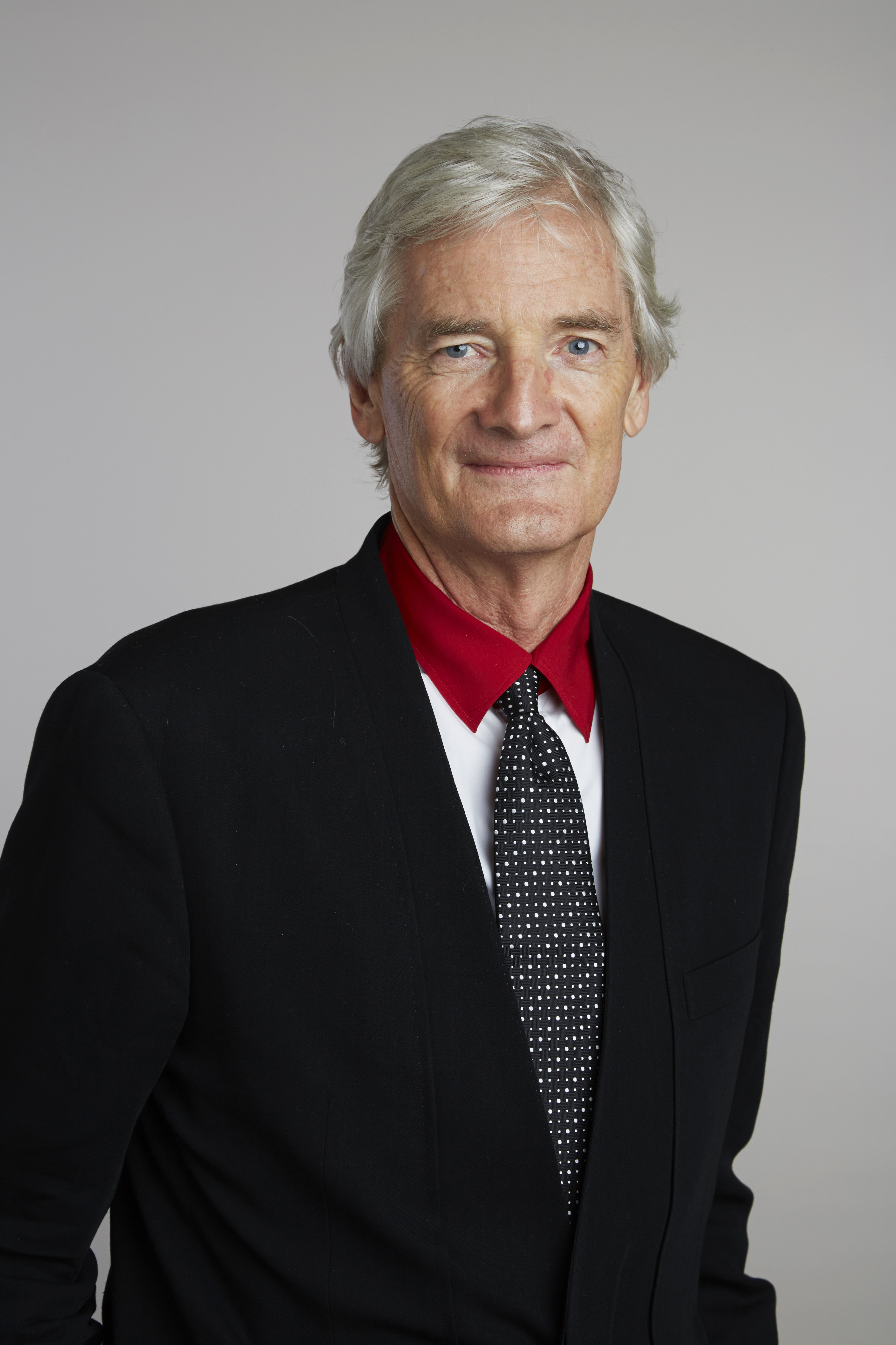 Dyson is a renowned inventor, entrepreneur, philanthropist and supporter of science and engineering. He has espoused developments in science and engineering to improve capital goods and everyday products. He holds 1,138 patents, funds 50 scientific research projects at UK universities and conducts further significant R&D at his own facility which he plans to double over the next two years. He has been an outspoken advocate of science and engineering. The James Dyson Foundation is dedicated to inspiring young people in science and engineering by offering resources and bursaries to schools, to university students and to post graduate researchers. Attribution: The Royal Society